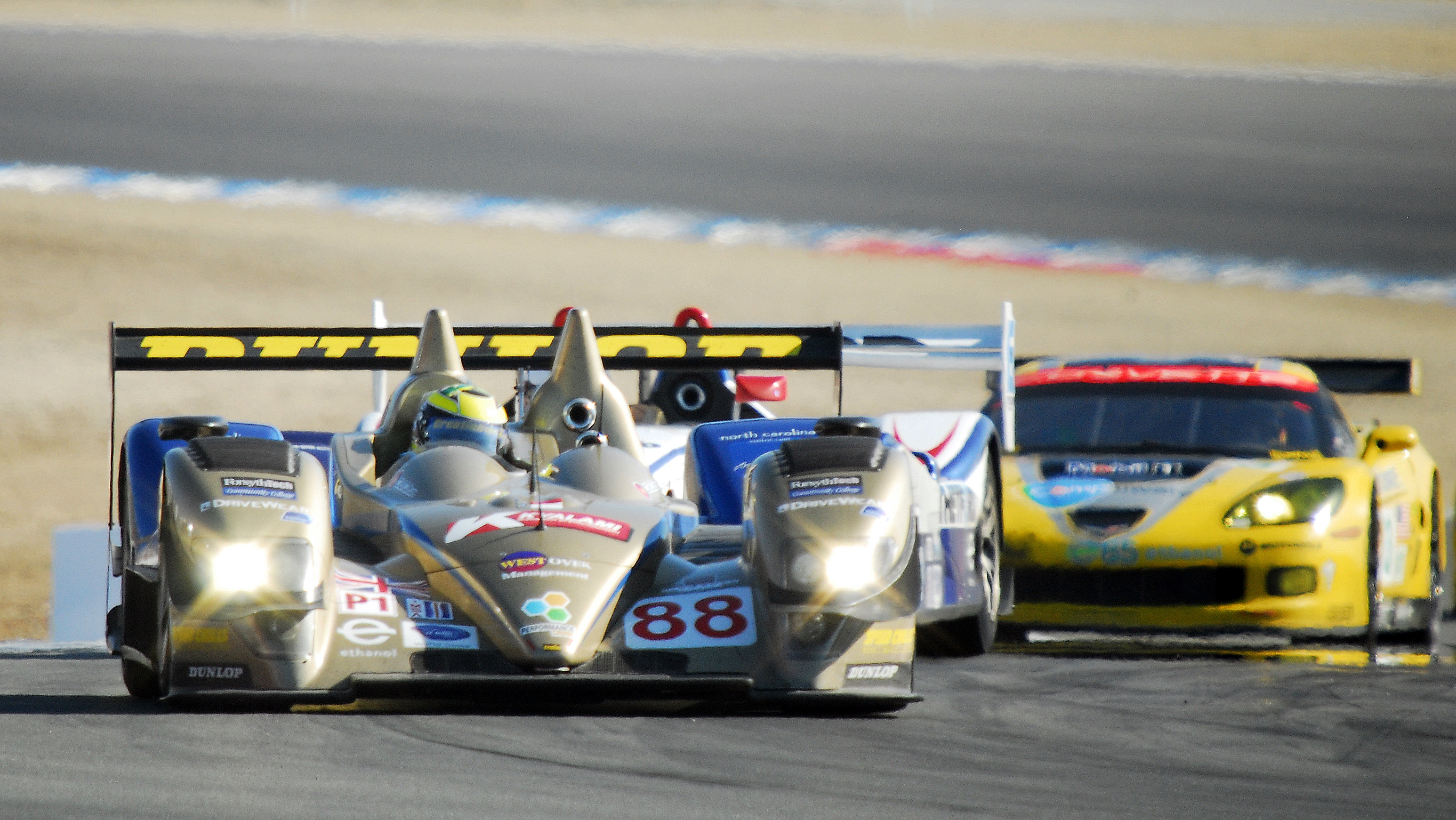 Creation CA07 in font of a Dyson Porsche RS Spyder at Laguna Seca 2008